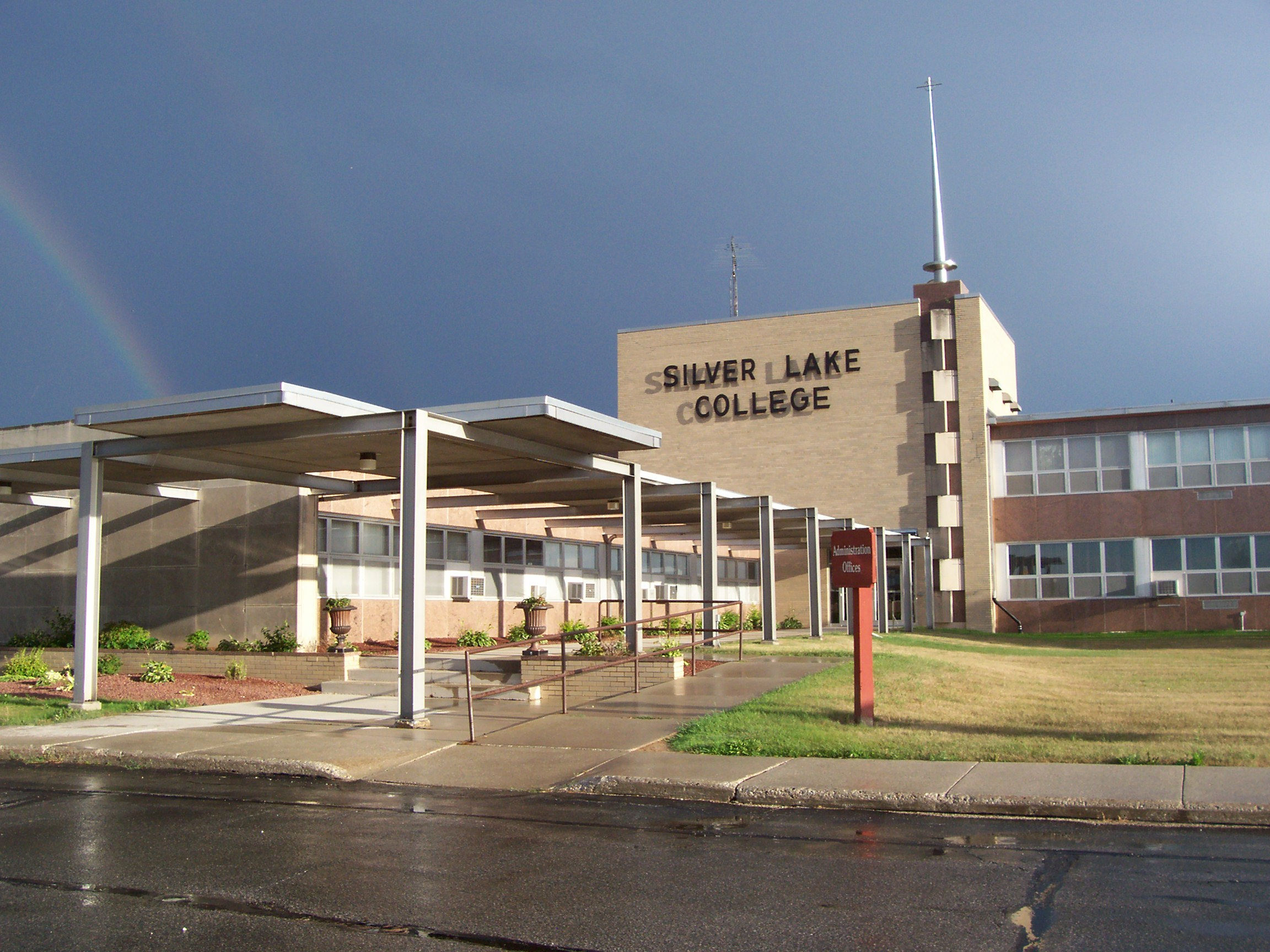 The entrance to the main building for Silver Lake College in Manitowoc, Wisconsin, USA.